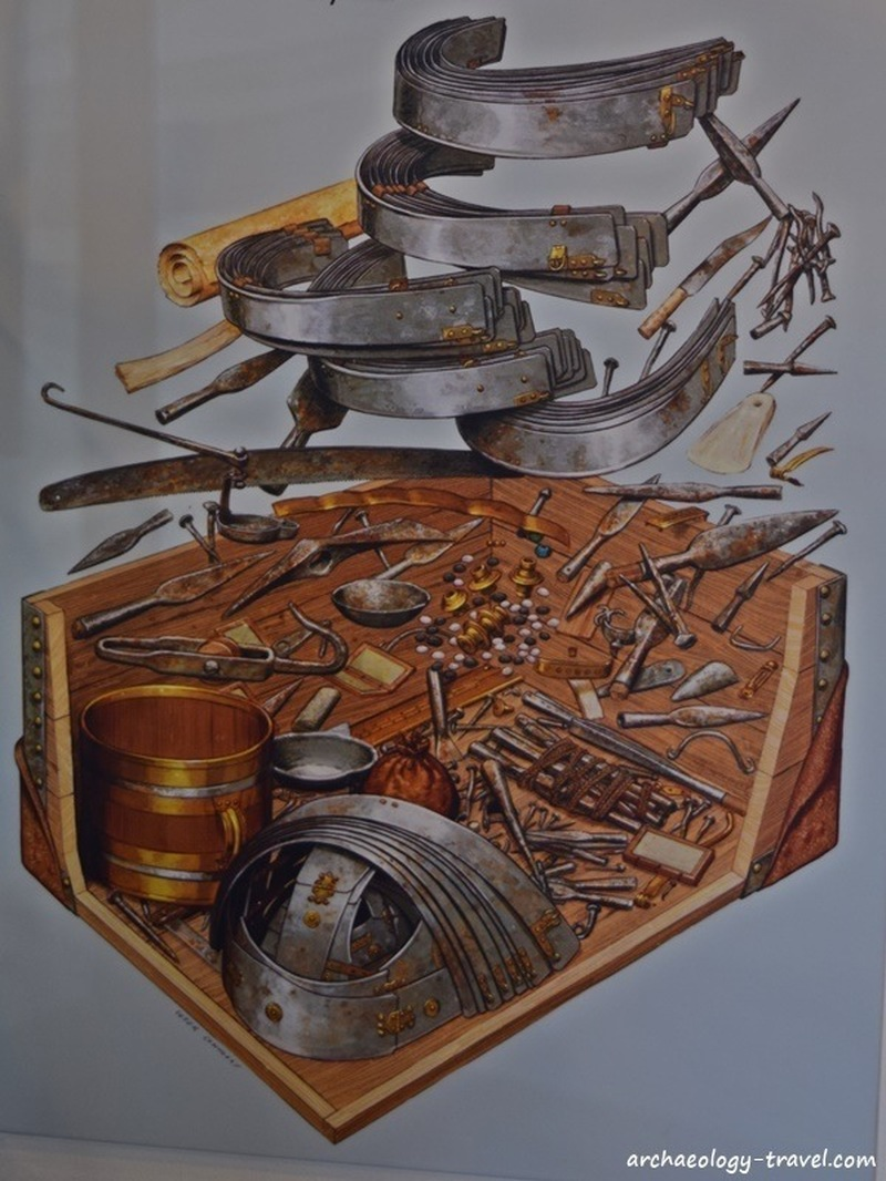 Corbridge hoard, artist impression. Mostly iron artefacts that was excavated in 1964 within the Roman site of Coria, next to what is now Corbridge, Northumberland, England (not to be confused with a hoard of gold coins found nearby in 1911). It came from amongst the central range of administrative buildings in one of the early forts underlying the later Roman town and probably dates to between AD 122 and 138.